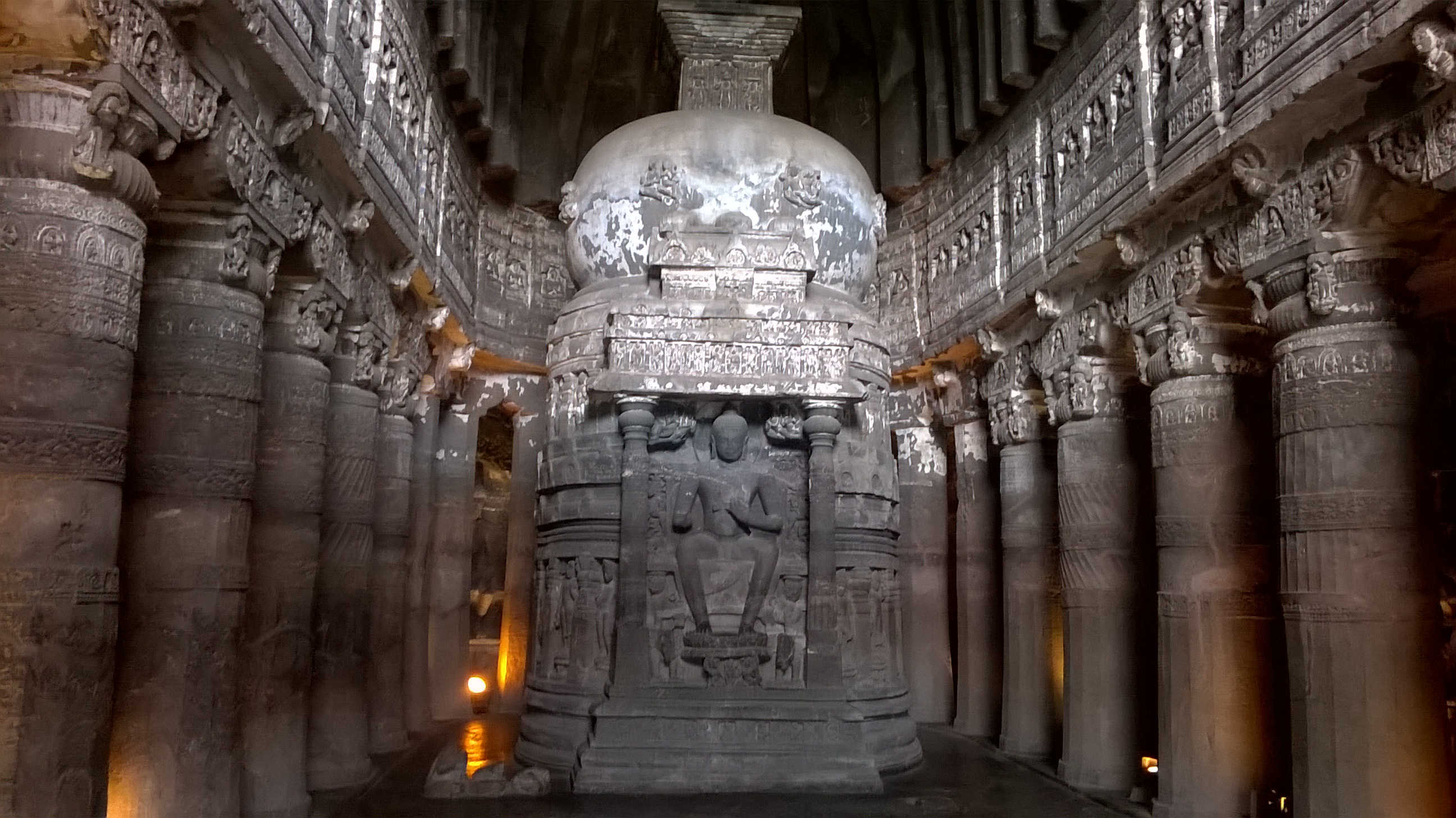 Ajintha Caves Maharashtra, India